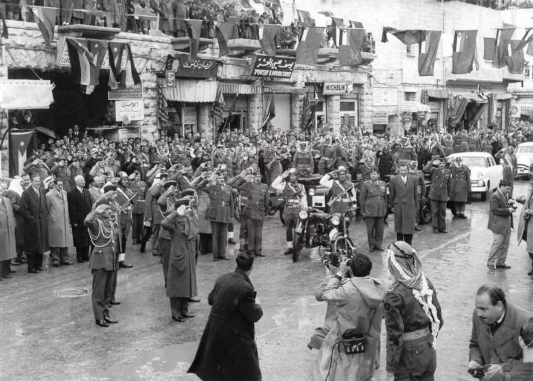 Jordan celebrating the first anniversary of the Arabization of the Arab Army, 1 March 1957. King Hussein, Suleiman Nabulsi, Sharif Shaker, Ali Abu Nowar, Bahjat Tabbara, Abdel Haleem Nimir and Mazen Ajlouni present.